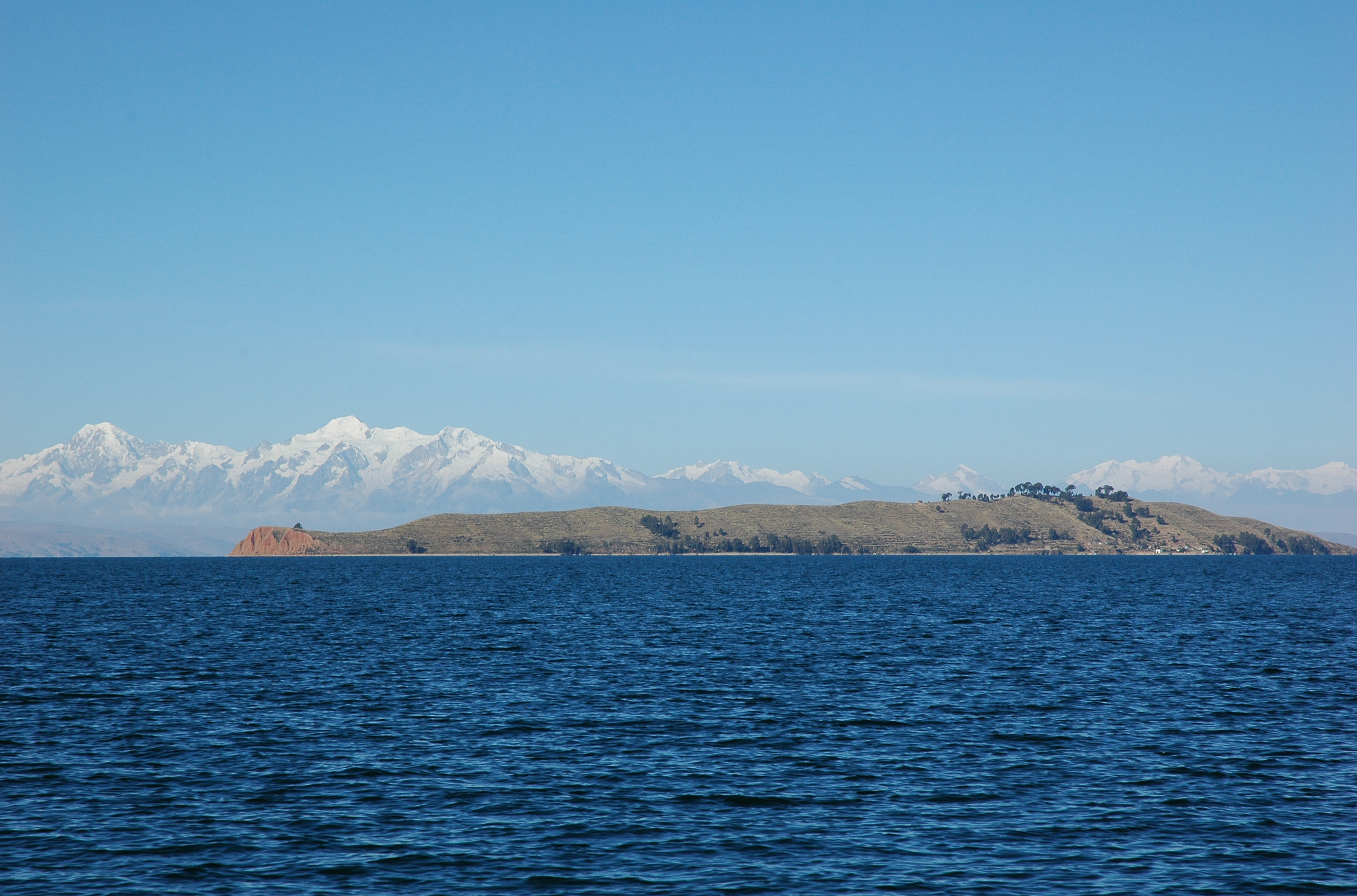 Isla de la Luna and Cordillera Real